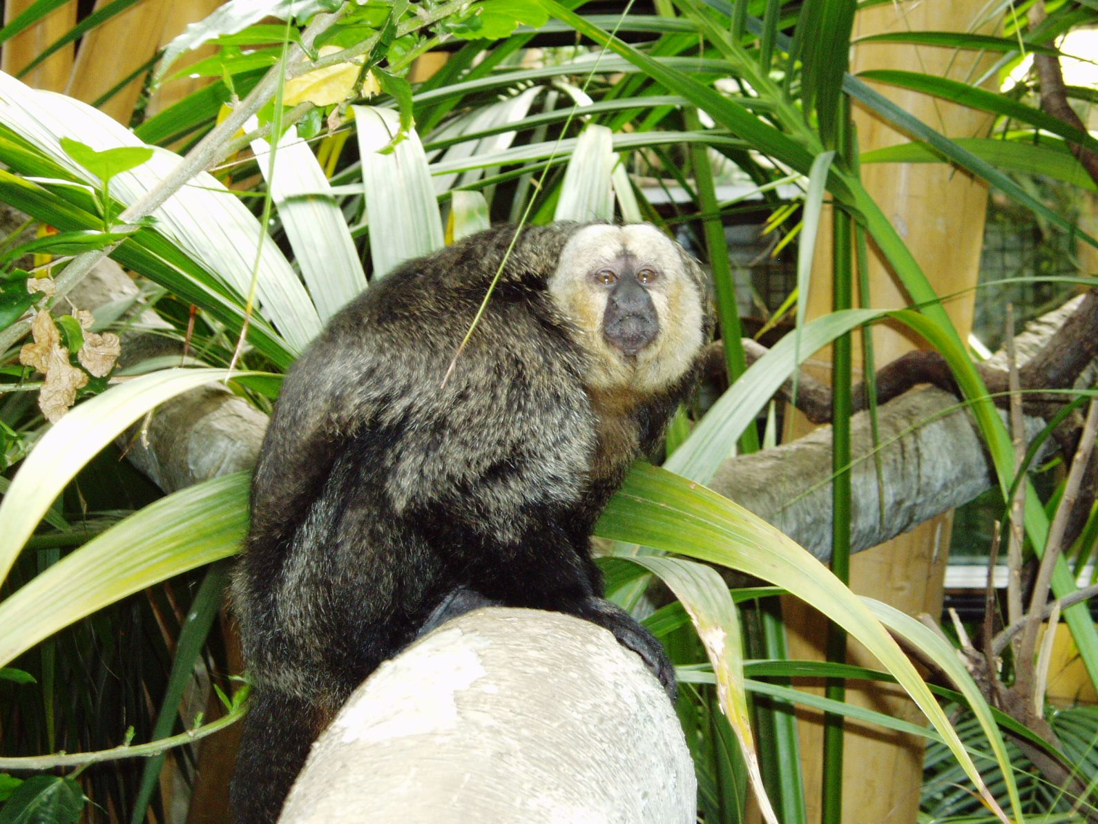 Withe-faced Saki